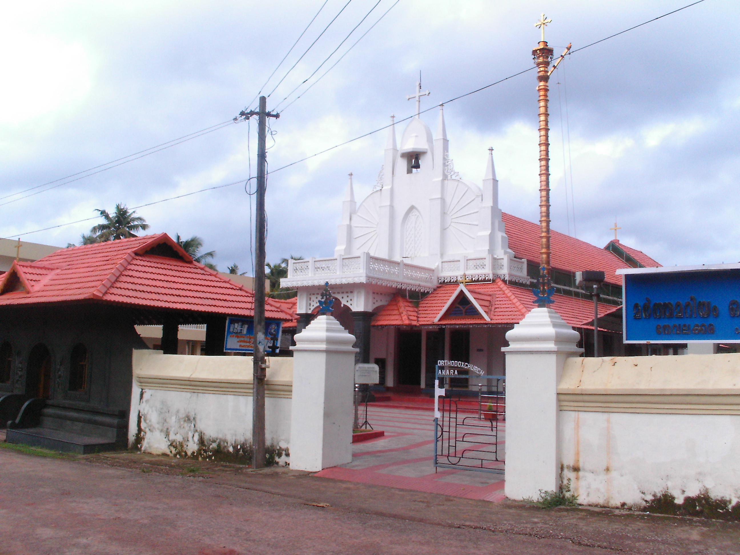 St. Mary Syrian Orthodox Church in Thevallakara, Kerala, India, with the Tomb of Mar Sabor inside